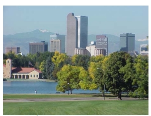 Conference site for the American Association of Geographers Annual Meeting